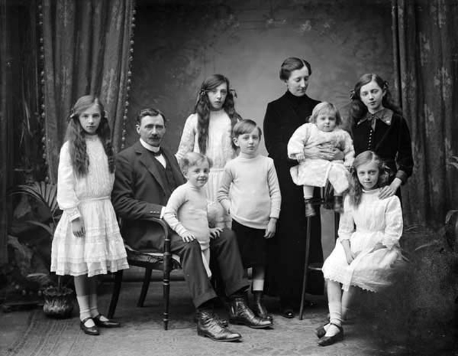 Mr & Mrs M. Young and family of Waterloo House, Waterford. This family may have lived at Ballyragget, Co. Kilkenny around 1905. We have another studio portrait of them with four children at that point. While Waterloo House is apparently long gone, it's great that desmondg47 has identified the location for us. It was "on the northern corner of the junction of Ballytruckle Road and Poleberry in Waterford city." D.Bishop1 did some investigation on the Youngs in the 1911 online census and came up with great information: "I believe I have found the same family in Manor street in the 1911 Census. As per census (add 2 yrs to get ages in photo): Matthew Young (41) [Fishmonger]; Mary Anne Young (35); Mary Anne (12); Annie (11); Lizzie (9); Bridget Angela (7); James (5); John (3). Presumably the youngest was not yet born. All family members are born in Waterford City with the exception of the mother Mary Anne/Marion who was born in Co. Kilkenny which could explain the other photo perhaps? Matthew has a very impressive signature on the census form! Back in the 1901 census they lived at 37 Old Tramore Road. Matthew was a 'Chicken Buyer' with the same impressive signature and they only had the first 2 daughters back then. in the 1901 census Mary Anne (mother) is written as 'Marion'. The 1901 census details are written by Matthew and not by the census taker so I assume that Marion is her correct name - hopefully Matthew would have written his own wife's name correctly! It seems that the census taker misheard 'Marion' as 'Mary Anne' in the 1911 census." So, all we need now is a name for the youngest child, who was born after the 1911 census! Date: 5 October 1913 NLI Ref.: P_WP_2489